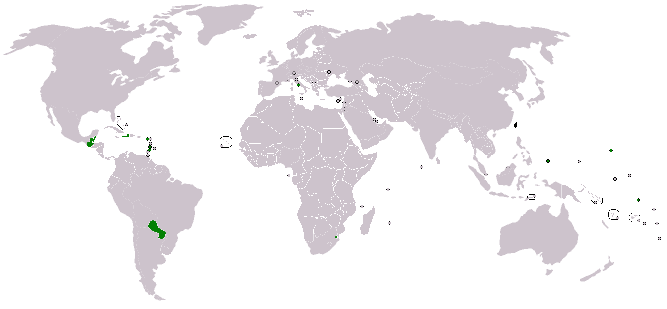 Countries with formal diplomatic relations with the Republic of China (Taiwan).